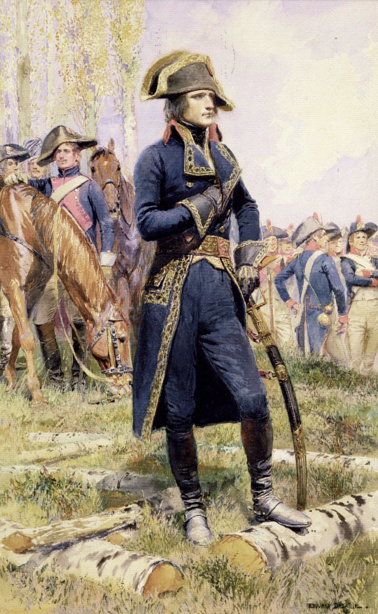 General Napoleon Bonaparte (1796-1797)